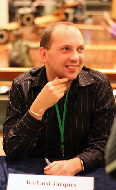 Richard Jacques, video game composer at the October 2007 meet and greet at Video Games Live in London.